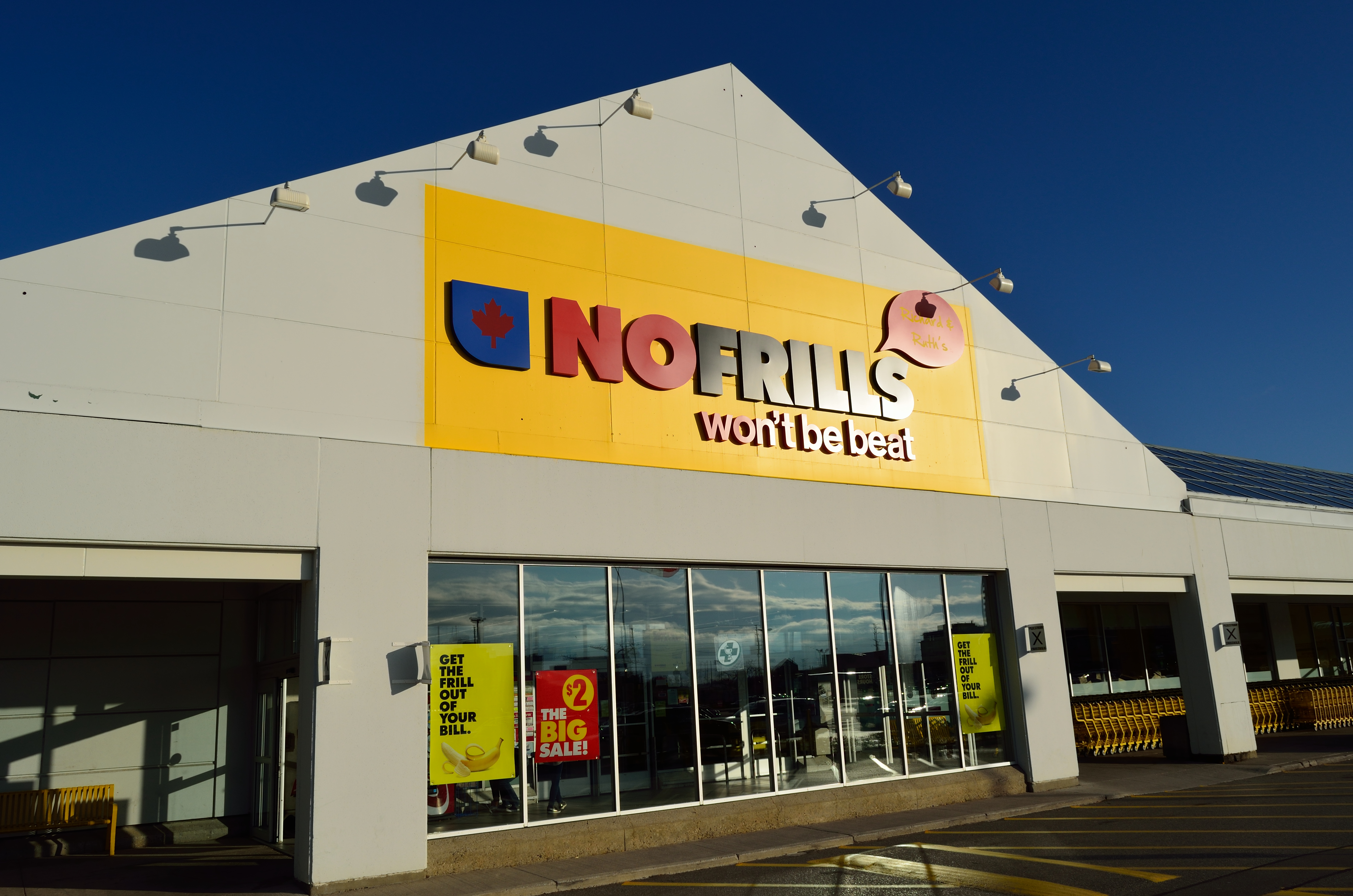 No Frills at Warden & Hwy 7